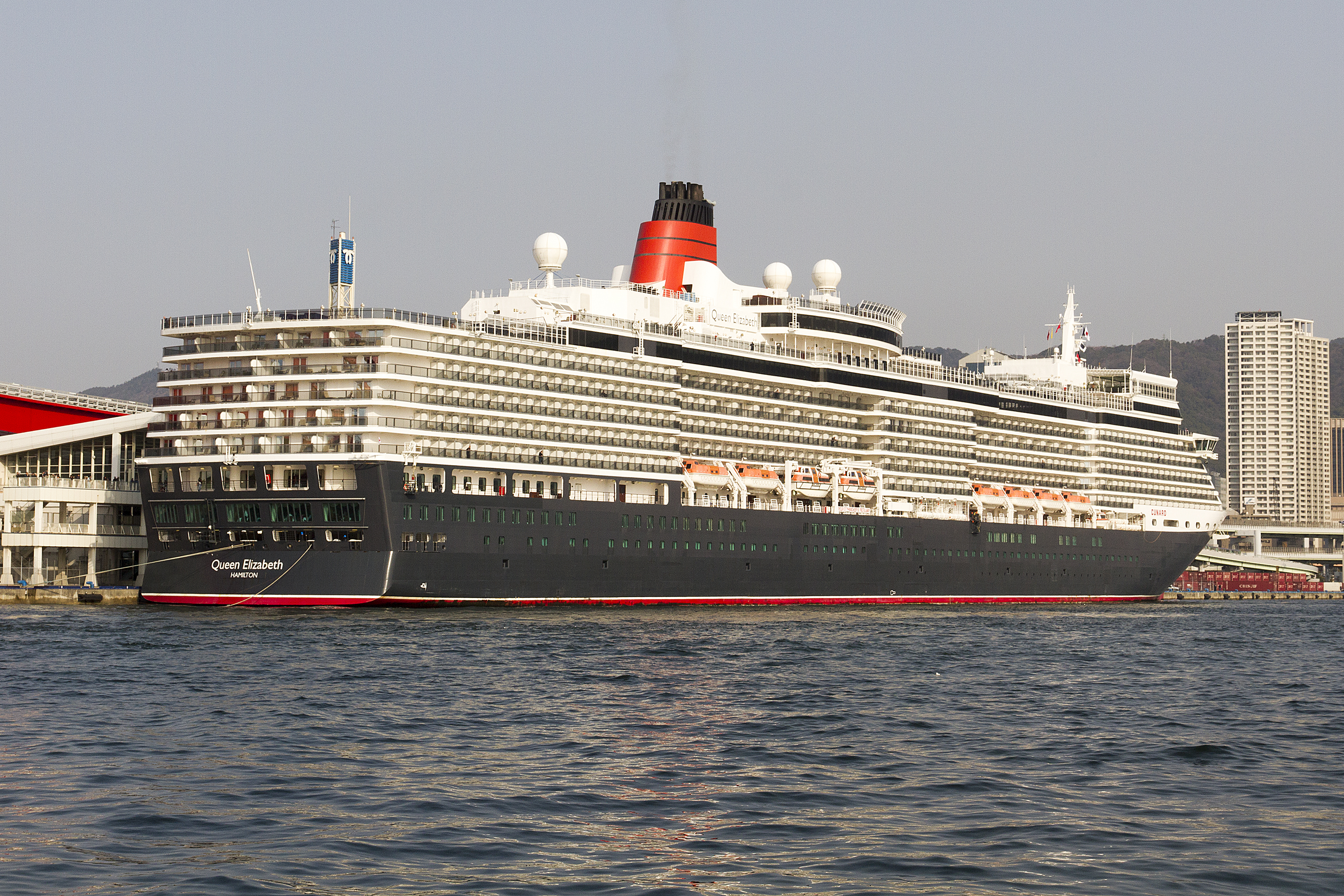 Queen Elizabeth at Kobe Port Terminal